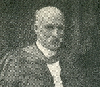 This photo is cropped from the frontispiece photo in this out of copyright book: Robert Wallace: Life and Last Leaves. Edited by J. Campbell Smith and William Wallace. London: Sands & Co., 1903. It is freely available in the public domain.